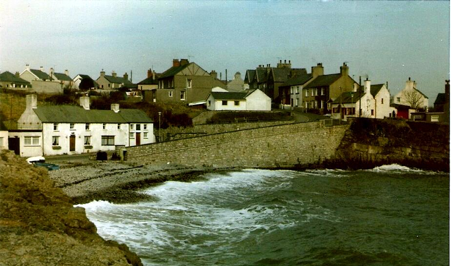 Moelfre village, Anglesey, Wales, about 1966.